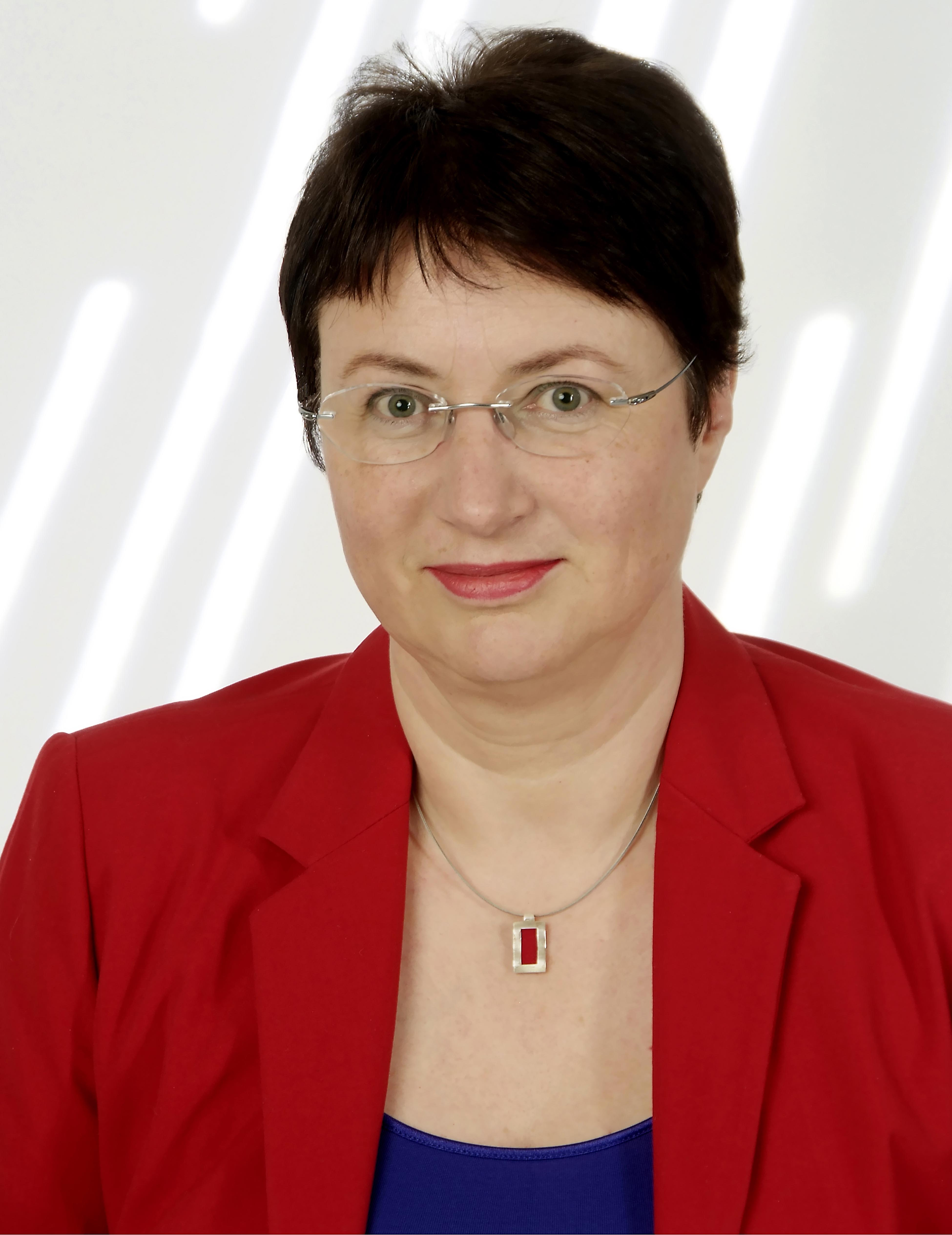 Renate Pacher, 2015